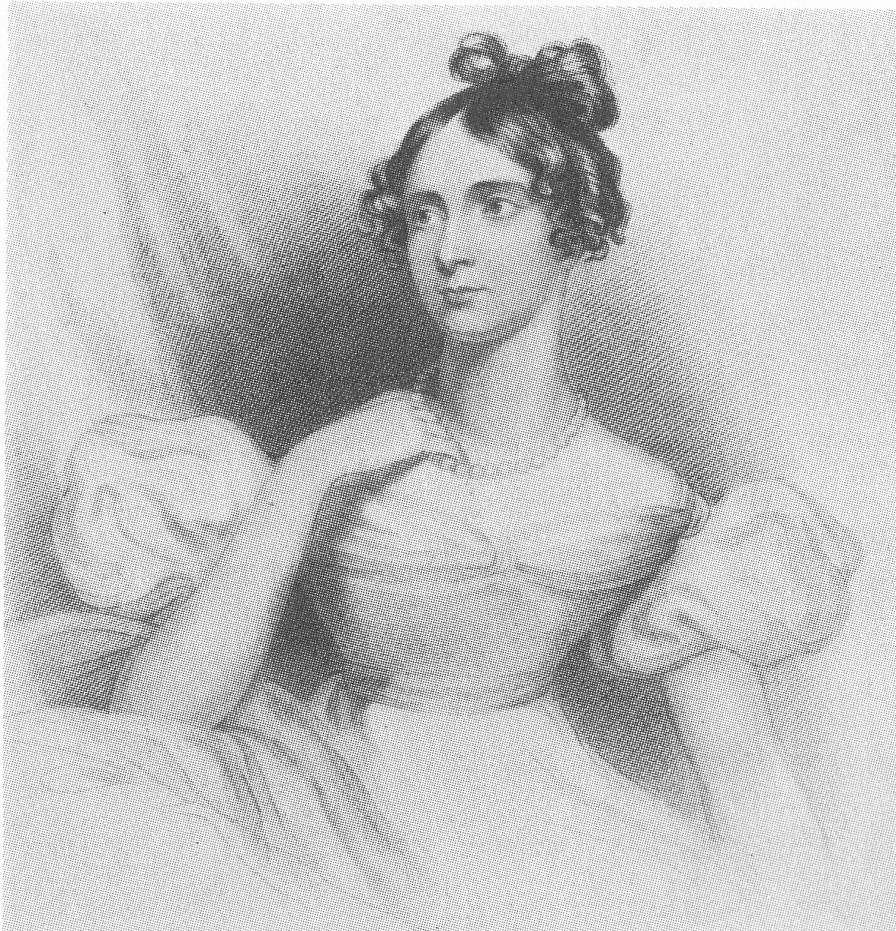 Anne Isabella Noel Byron, 11th Baroness Wentworth (17 May 1792–16 May 1860), was the wife of George Gordon Byron, 6th Baron Byron, the poet; and mother of Ada, Countess Lovelace, the patron and co-worker of Charles Babbage.